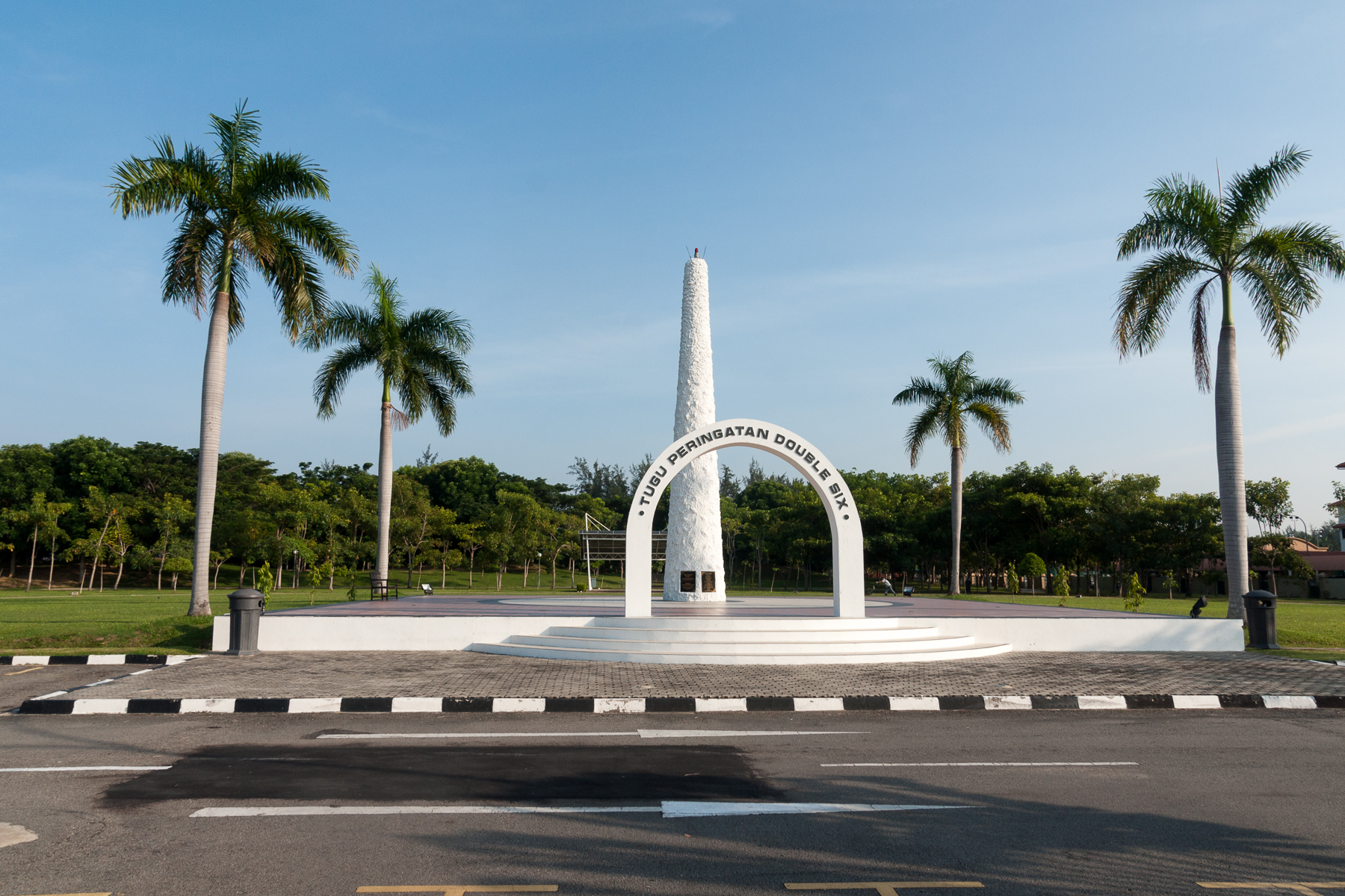 Double Six Monument (Tugu Peringatan Double Six) in Sembulan, Kota Kinabalu